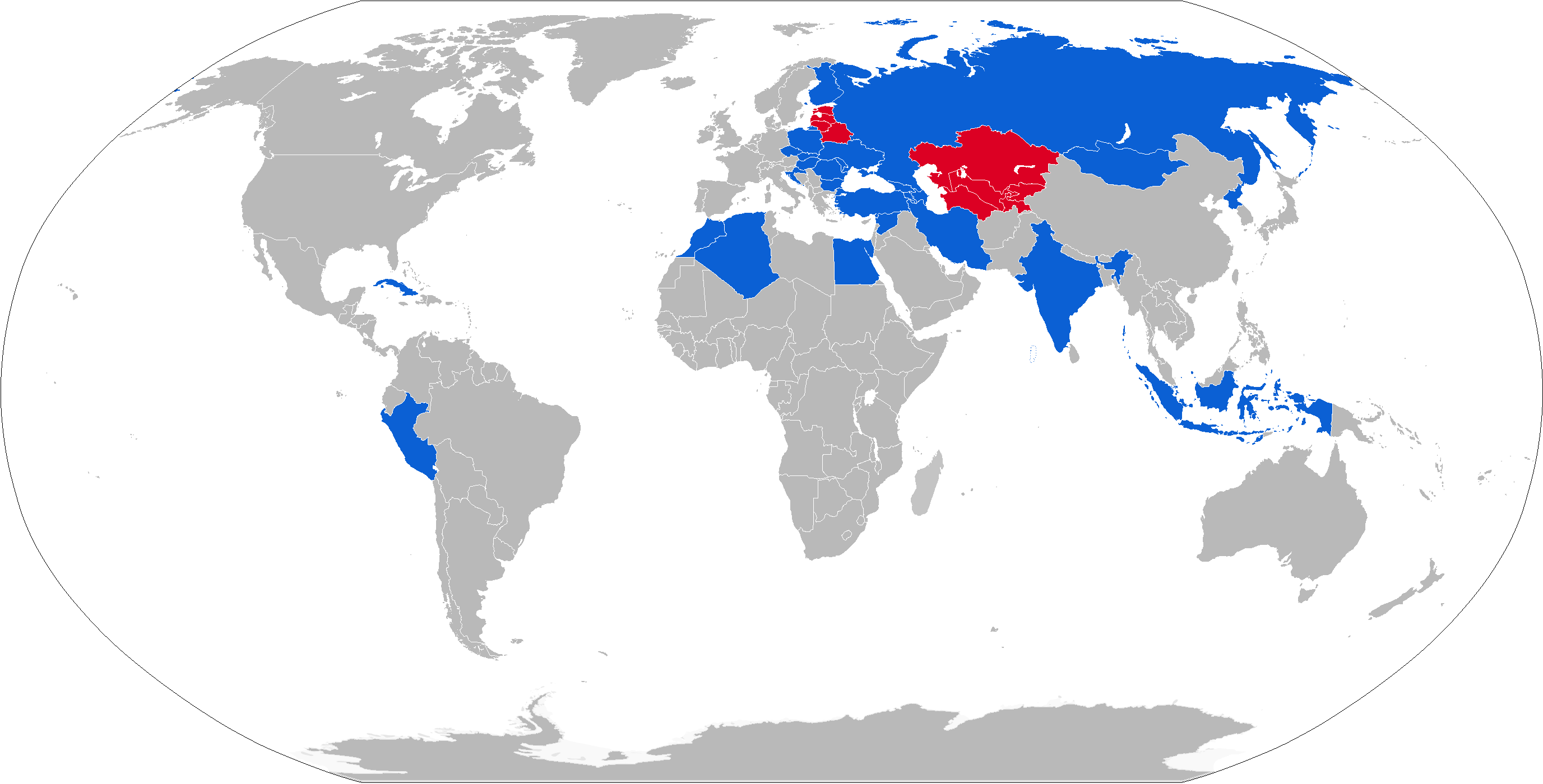 Map with 9M113 operators in blue with former operators in red